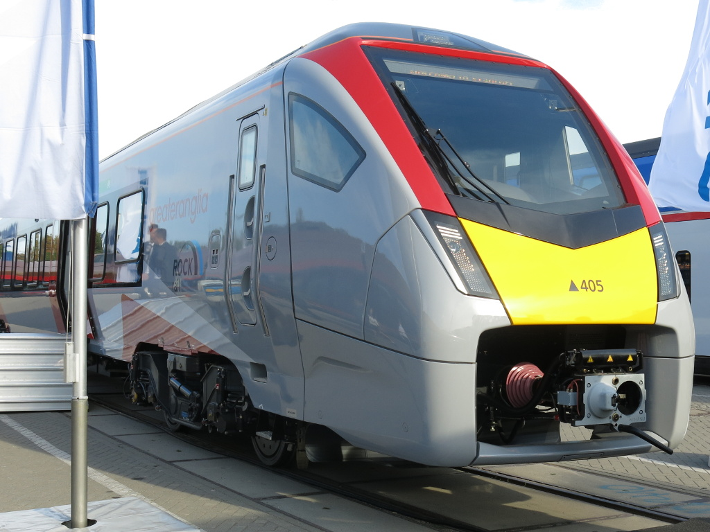 Abellio Greater Anglia's regional train based on Stadler bi-mode FLIRT platform presented at InnoTrans 2018